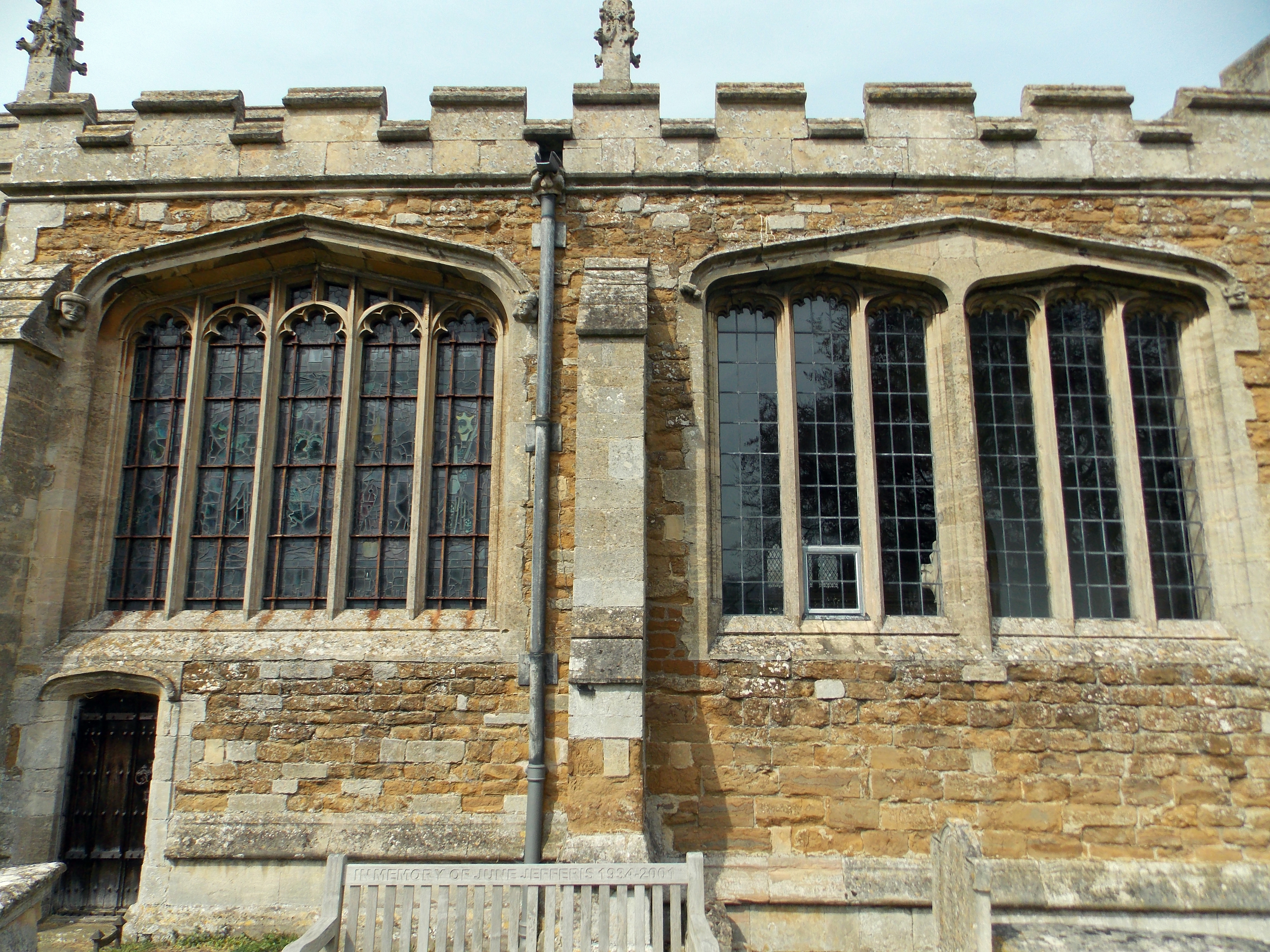 Tudor windows of the south chapel of SS Mary and Peter's parish church, Harlaxton, Lincolnshire, seen from the south